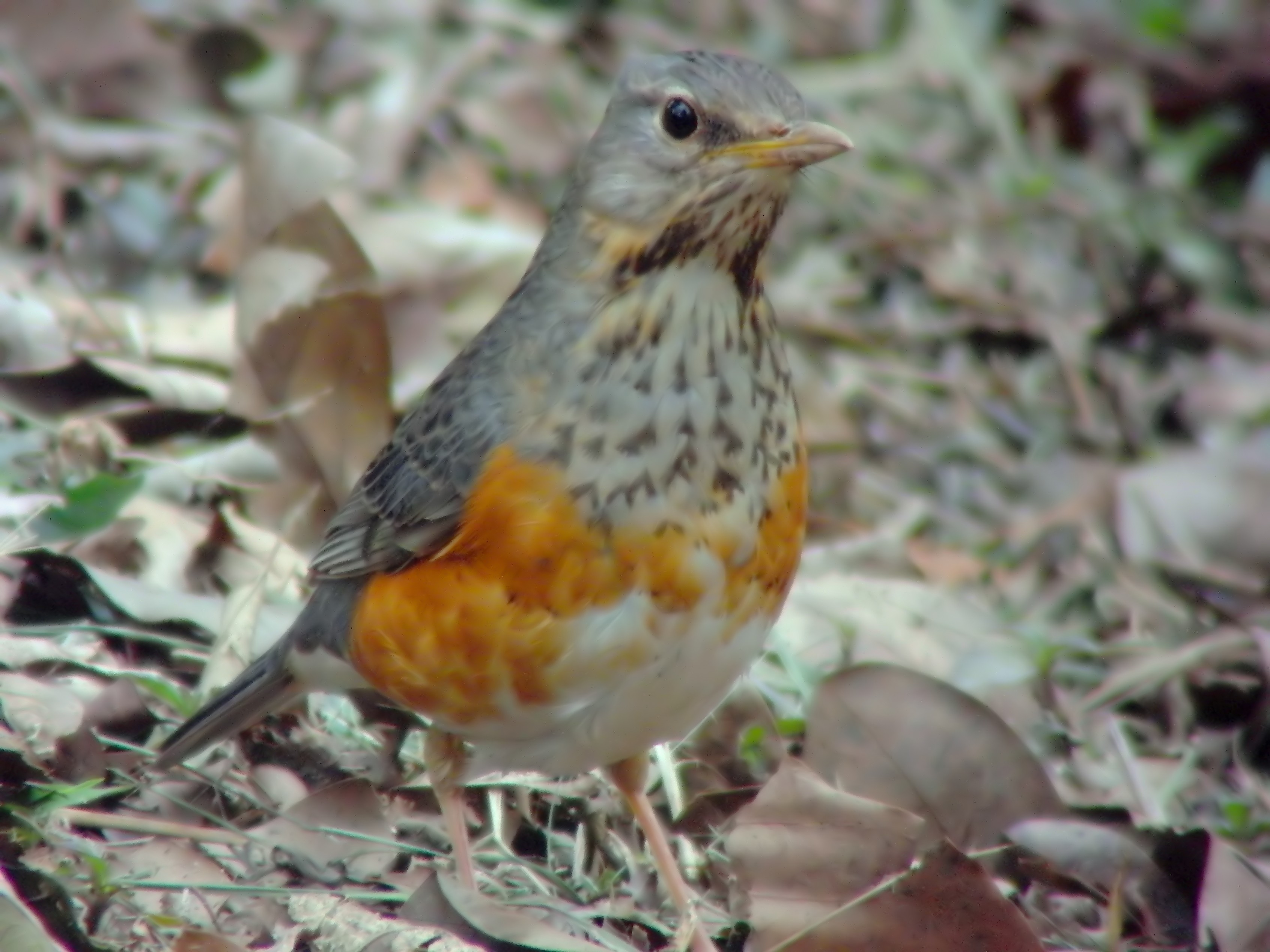 Saw at park area. Got a video as well.